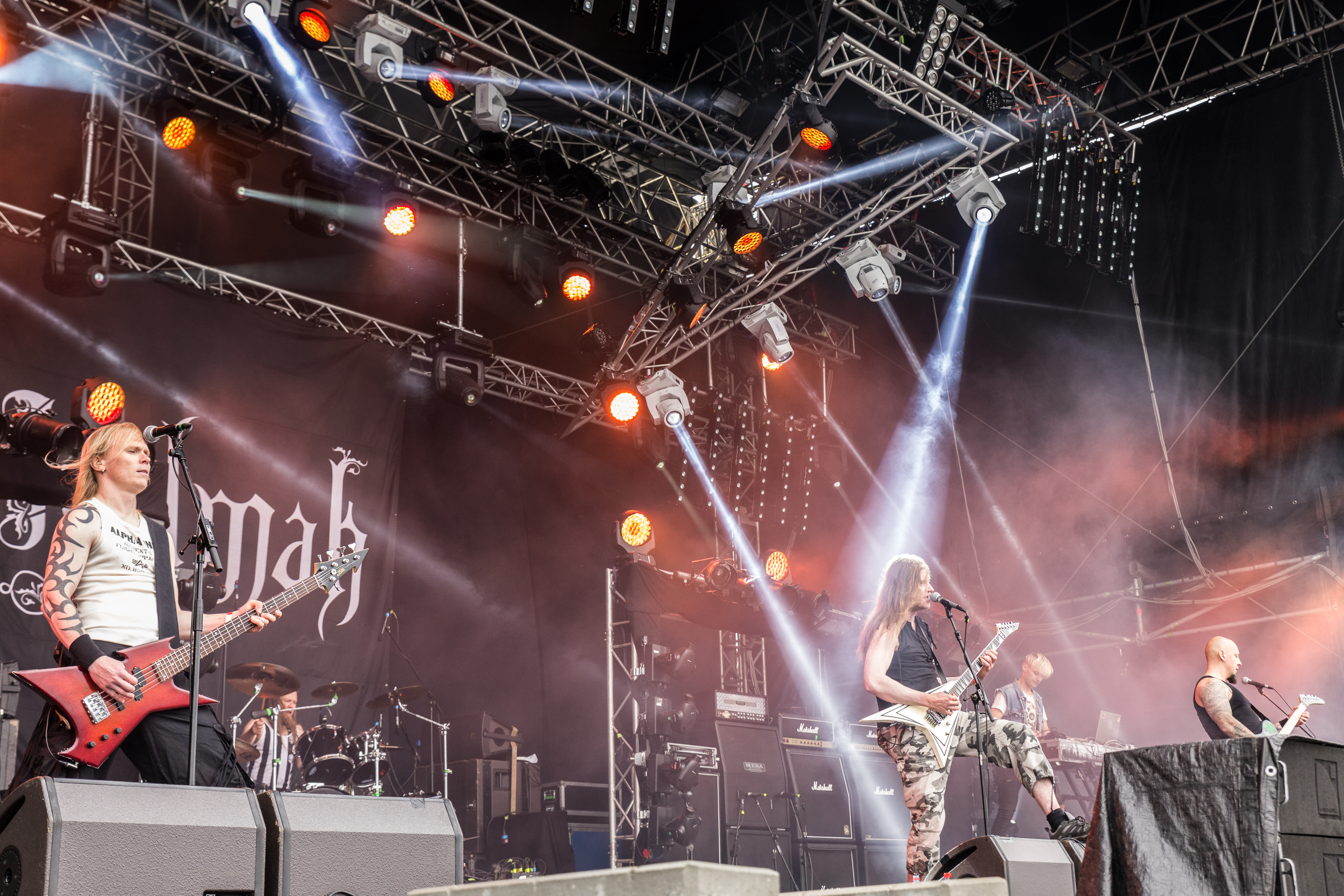 The Finnish melodic death metal band Kalmah at the Party.San Metal Open Air 2017 in Obermehler-Schlotheim/Germany.